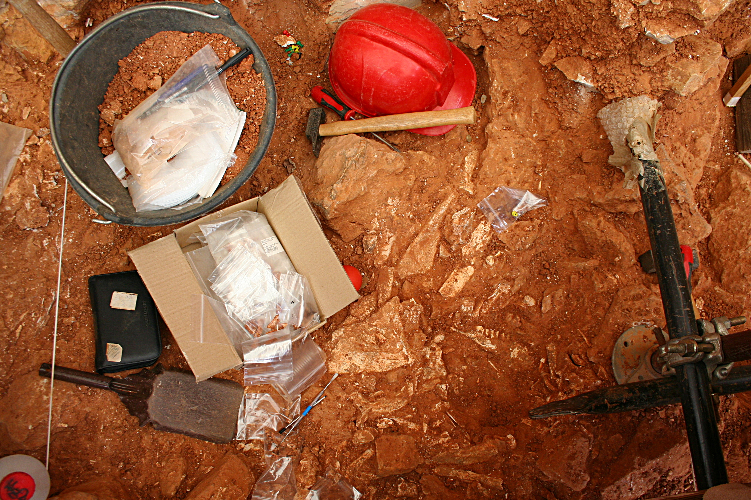 Tools needed to make an archaeological excavation. Gran Dolina, Atapuerca, Spain.